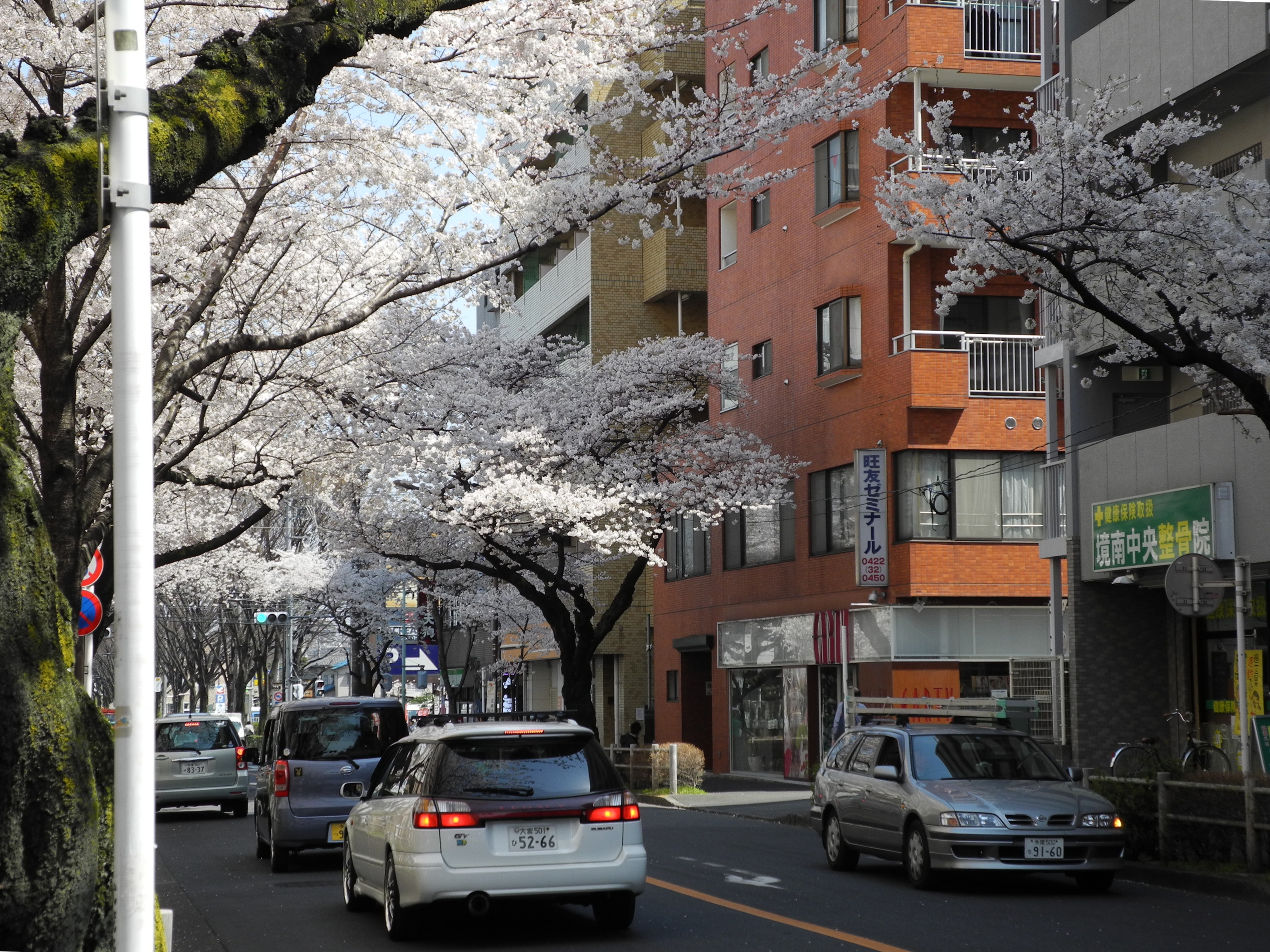 Cherry blossoms along a main street in Musashino, not far NW of Kichijoji.